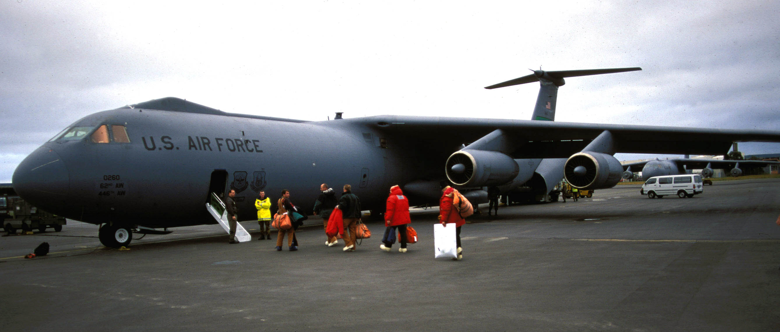 Starlifter in Christchurch, New Zealand, ready for take off to transport personal and air freight to the U.S. Station McMurdo in Antarctica